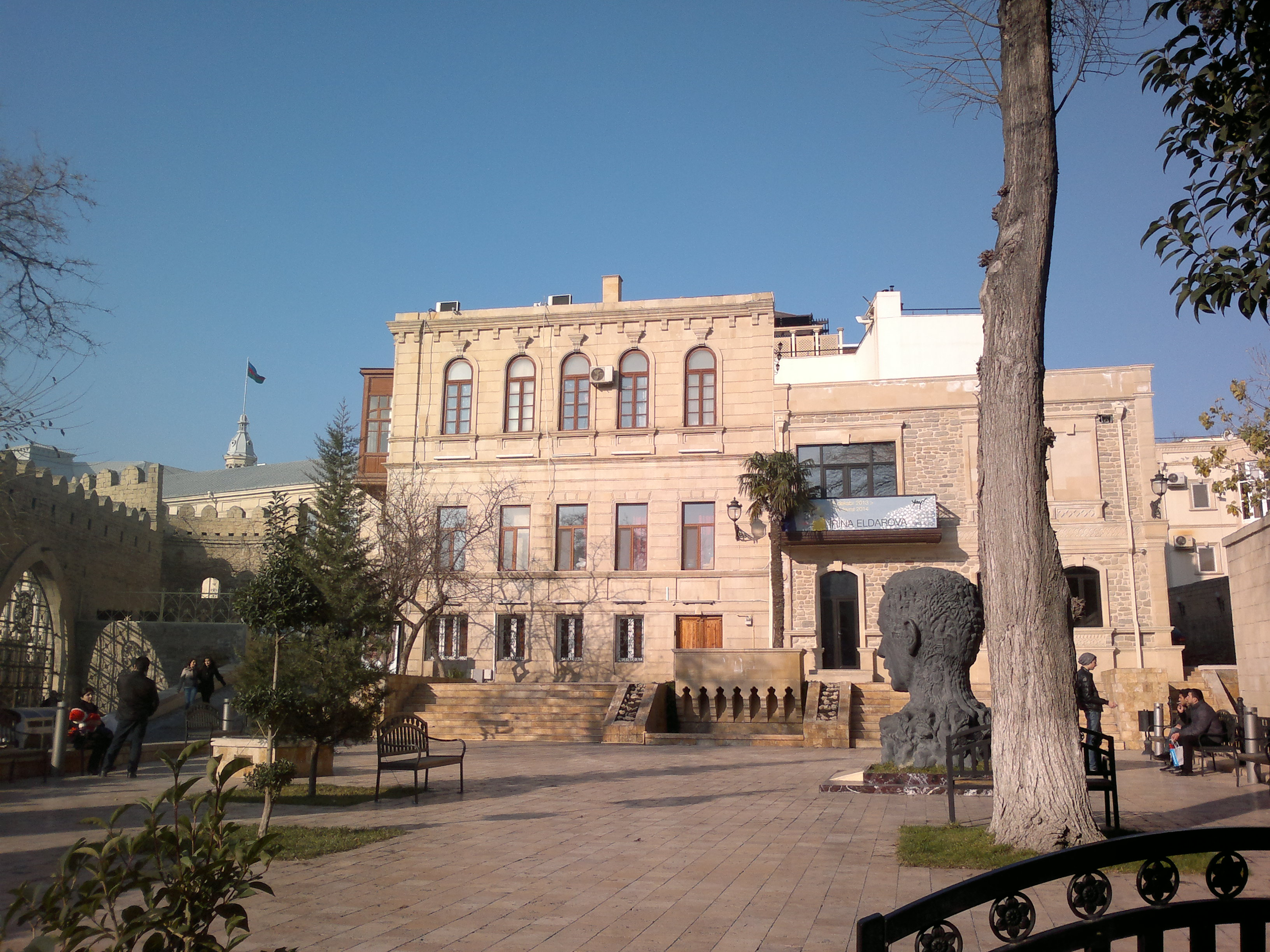 Garden with Aliaga Vahid's monument in Ichery Sheher, Baku, Azerbaijan.